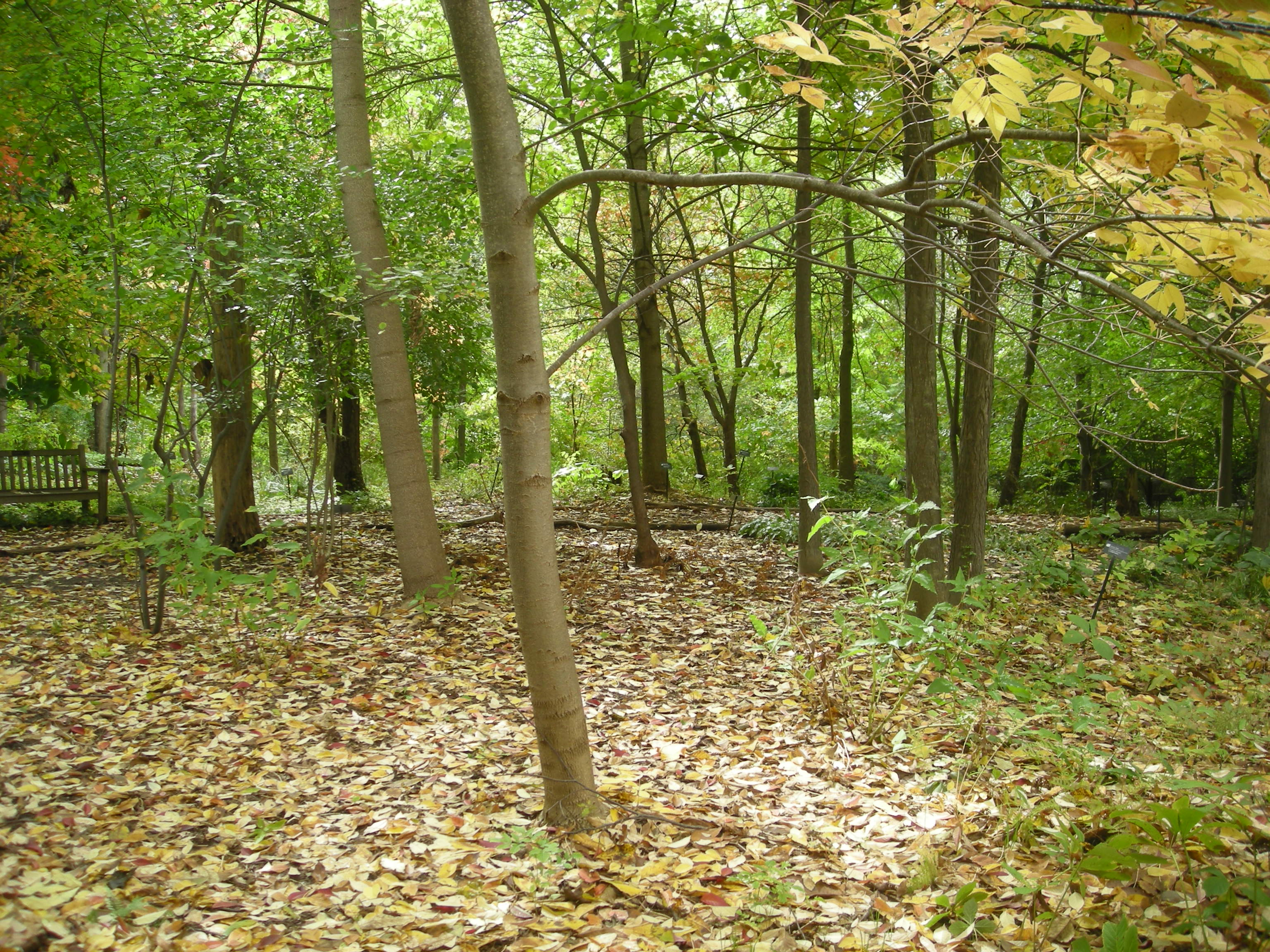 The Gwen Frostic Woodland Shade Garden at the Frederik Meijer Gardens & Sculpture Park in Grand Rapids Township, Michigan (United States).